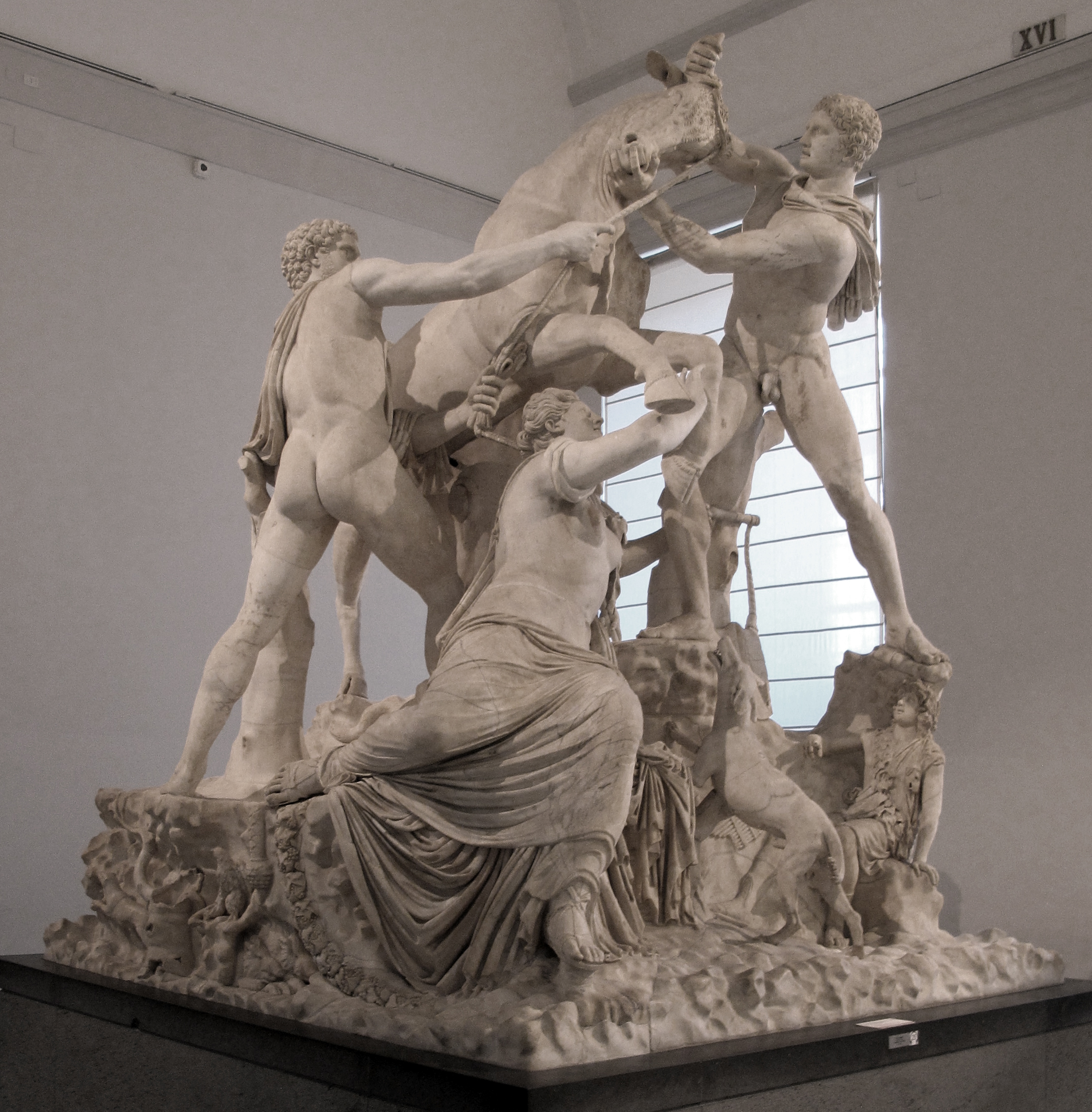 Ancient Roman statues in the Museo Archeologico (Naples)